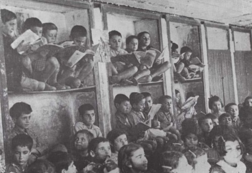 Orphans of the Armenian Genocide in Aleppo